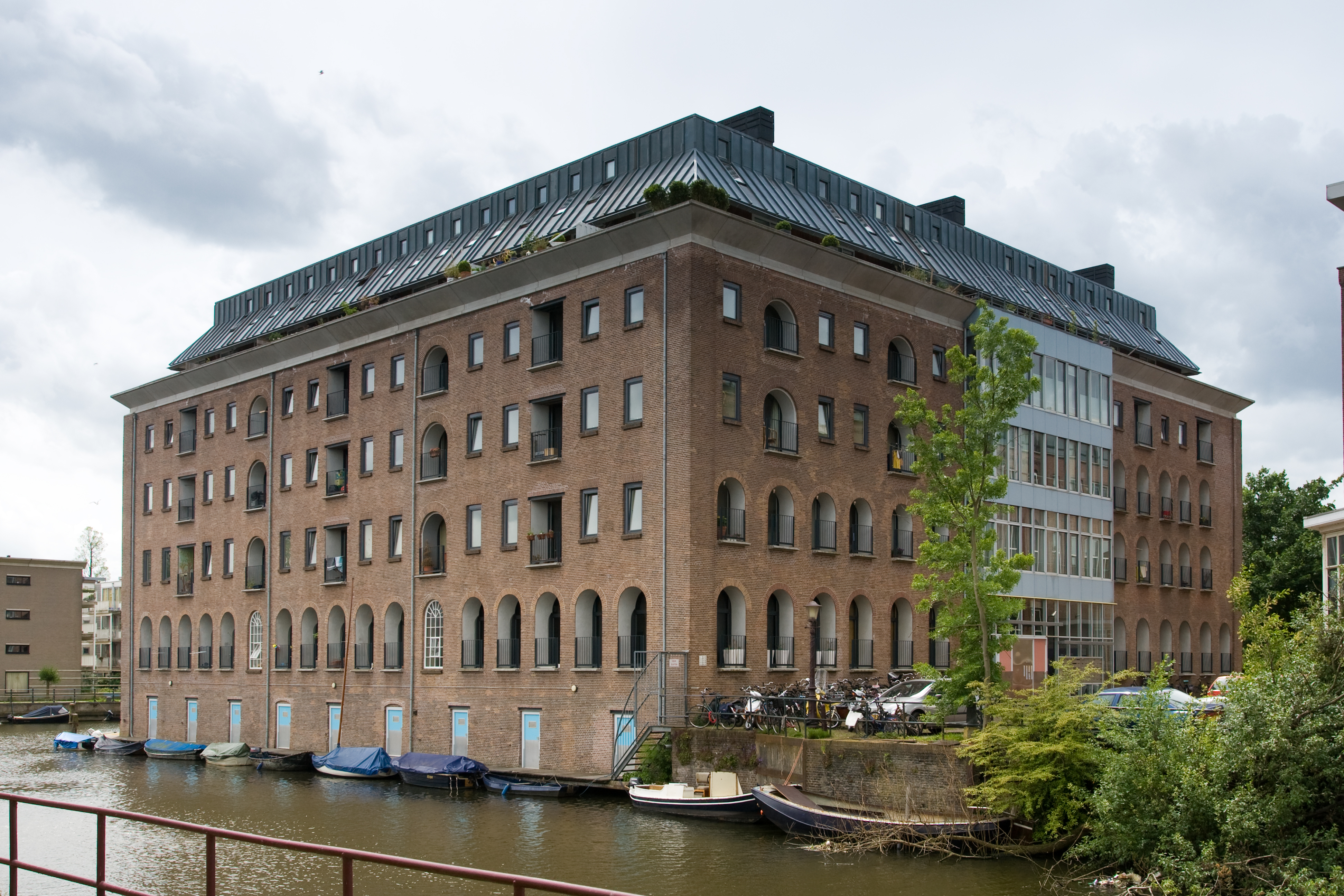 Pakhuis Oostenburg, Amsterdam